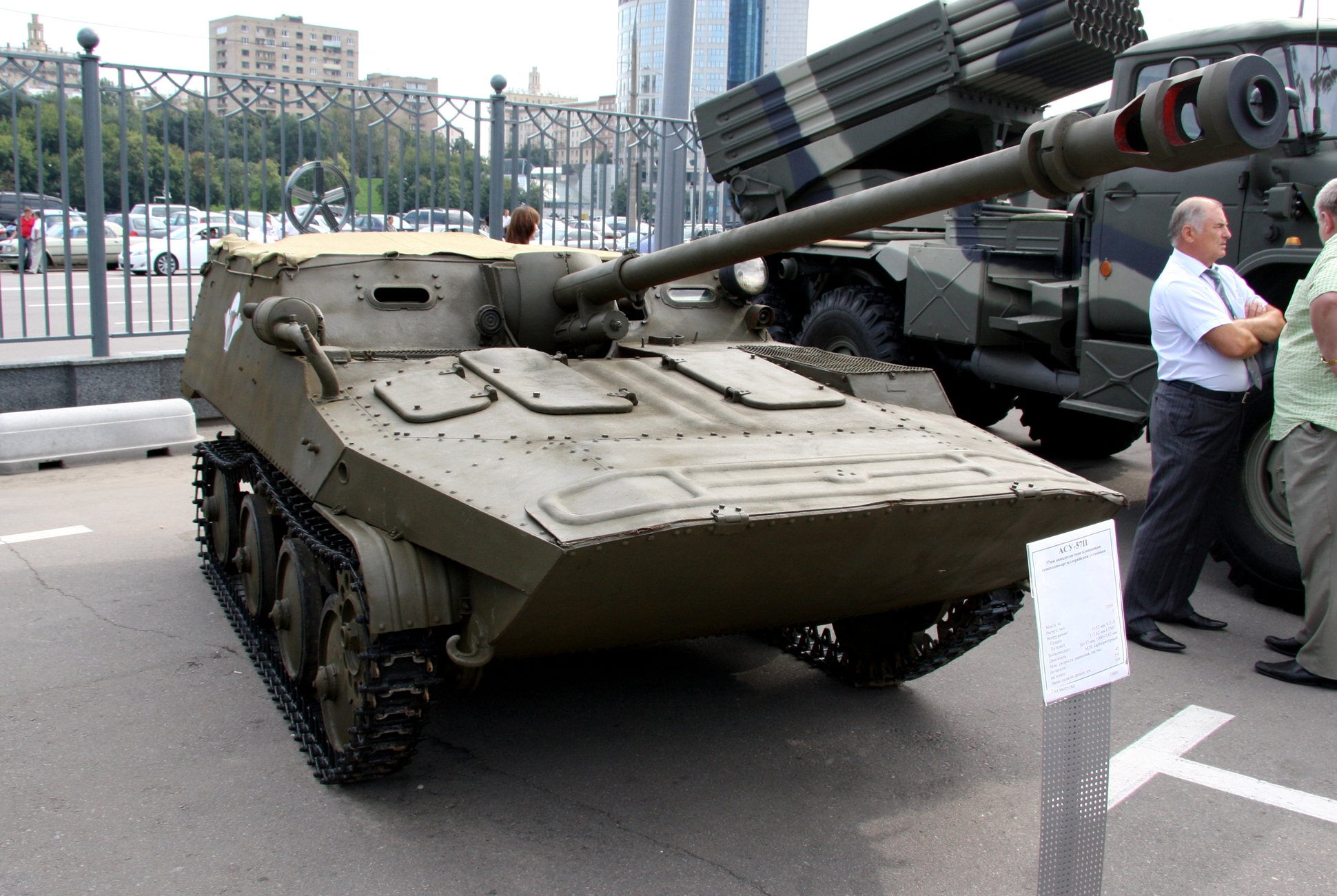 ASU-57P swimming self-propelled artillery at IDELF-2008.